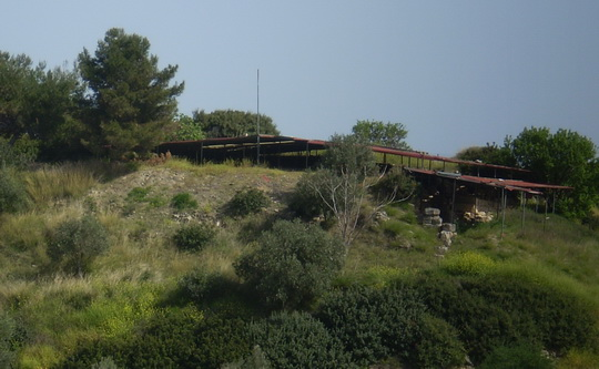 Archaeological site of ancient Kynos, Livanates, Greece